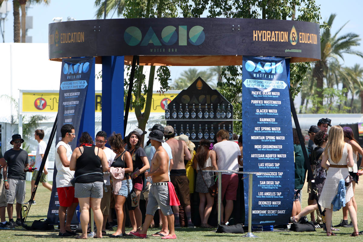 Global Inheritance photograph of the Oasis Water Bar from Coachella 2013